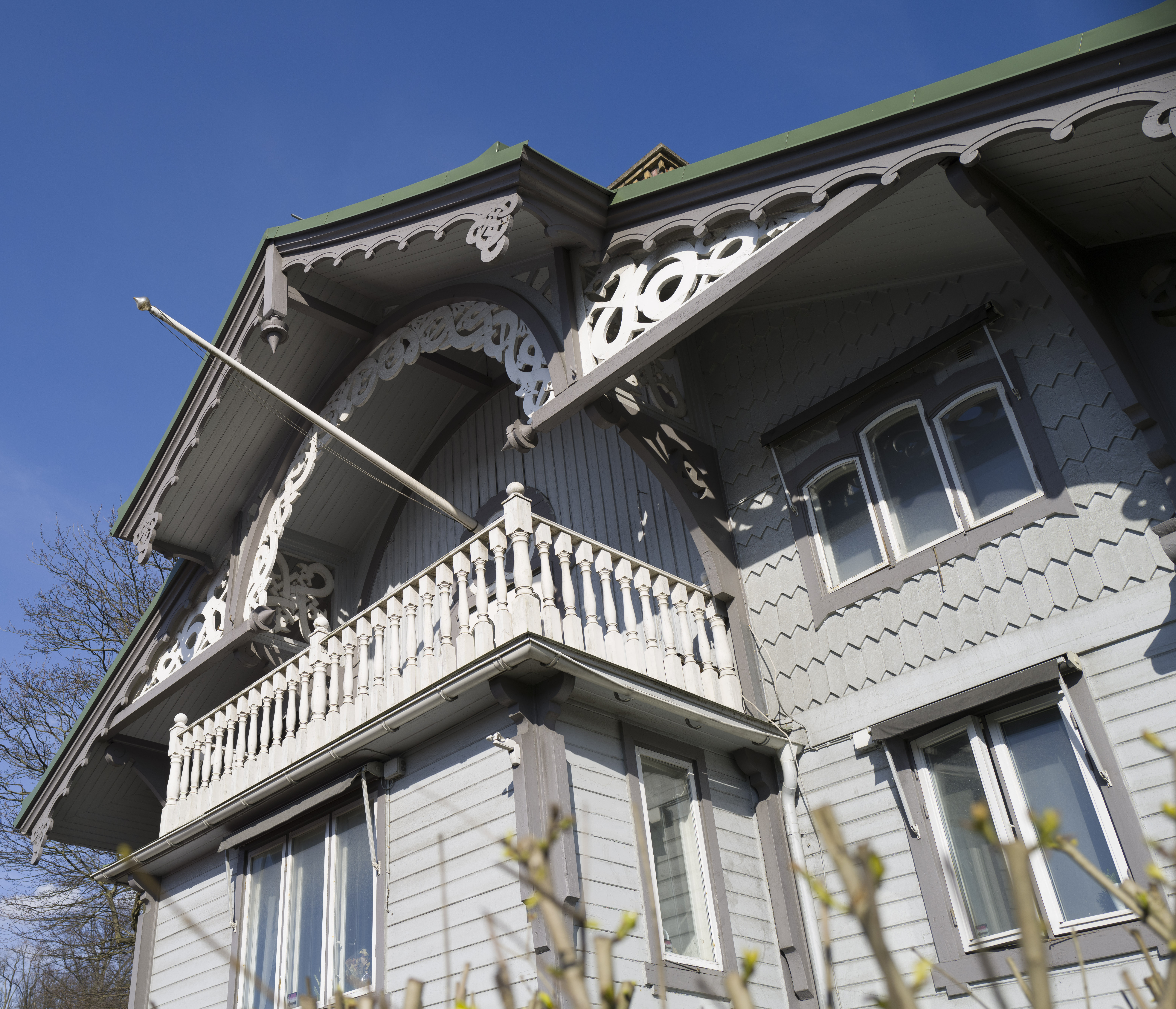 A house showing various details of viking revival style. 20th century